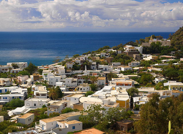 Houses in the village by the port of Panarea